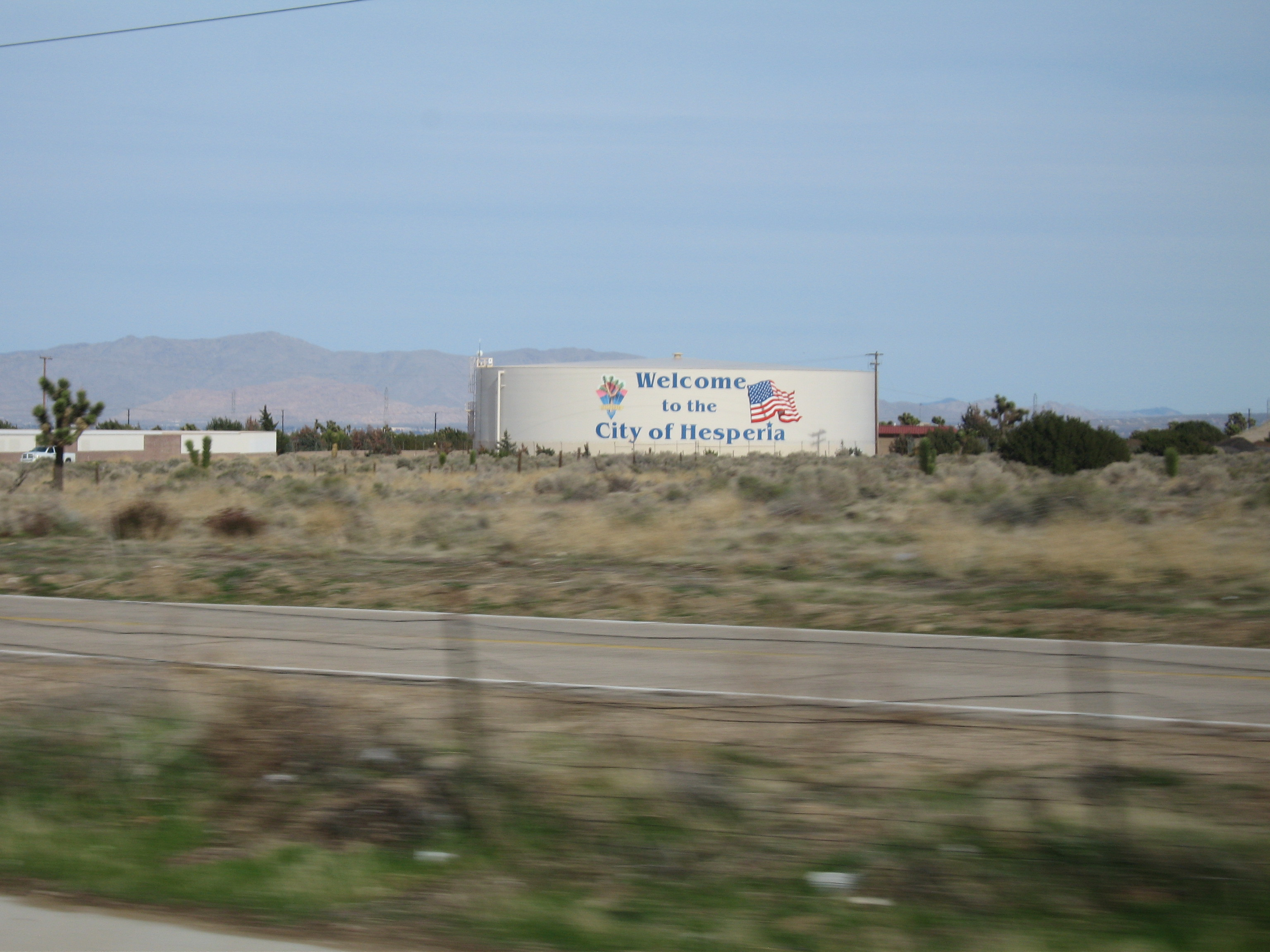 Water tower, Hesperia, CA